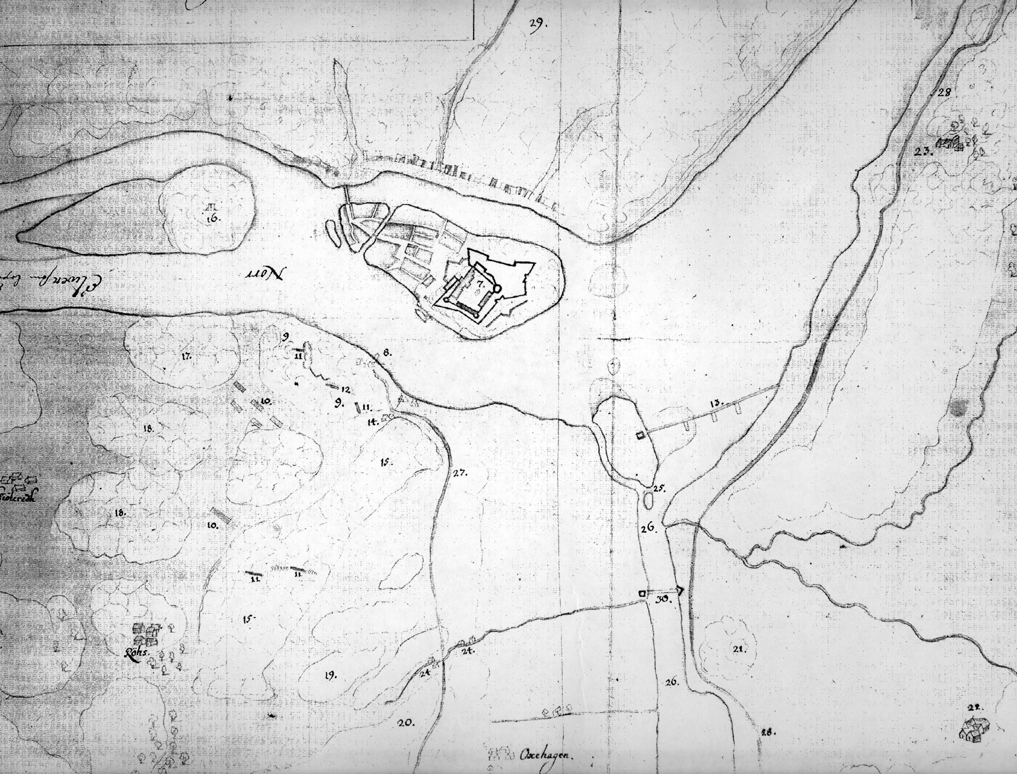 Detail from swedish map of the surroundings of Bohus fortress during a siege in August 1645. 7) The danish-norwegian fortress Bohus, and town Ny-Kungälv. 9) Places were minor fighting have occurred. 10) Swedish cavallery 11) and 12) Swedish gunbatteries 13) Danish-norwegian obstacle in the river Göta älv, with defense redoubt. 16) Gallows hill 22) Farm in Skårdals skate, in danish-norwegian territory. 23) Farm in swedish territory 24) Watermills 25) Smygen, man made channel for small vessels. 27) Road to Gothenburg 28) Road between Gothenburg and Vänersborg 29) The mountain Fontin 30) Movable bridge, also made permanent in the war 1657.